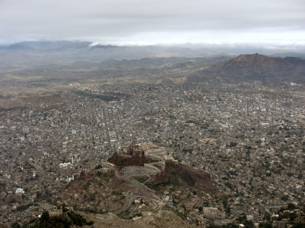 Taizz, in the middle the Cair fortress200612_Yemen-211